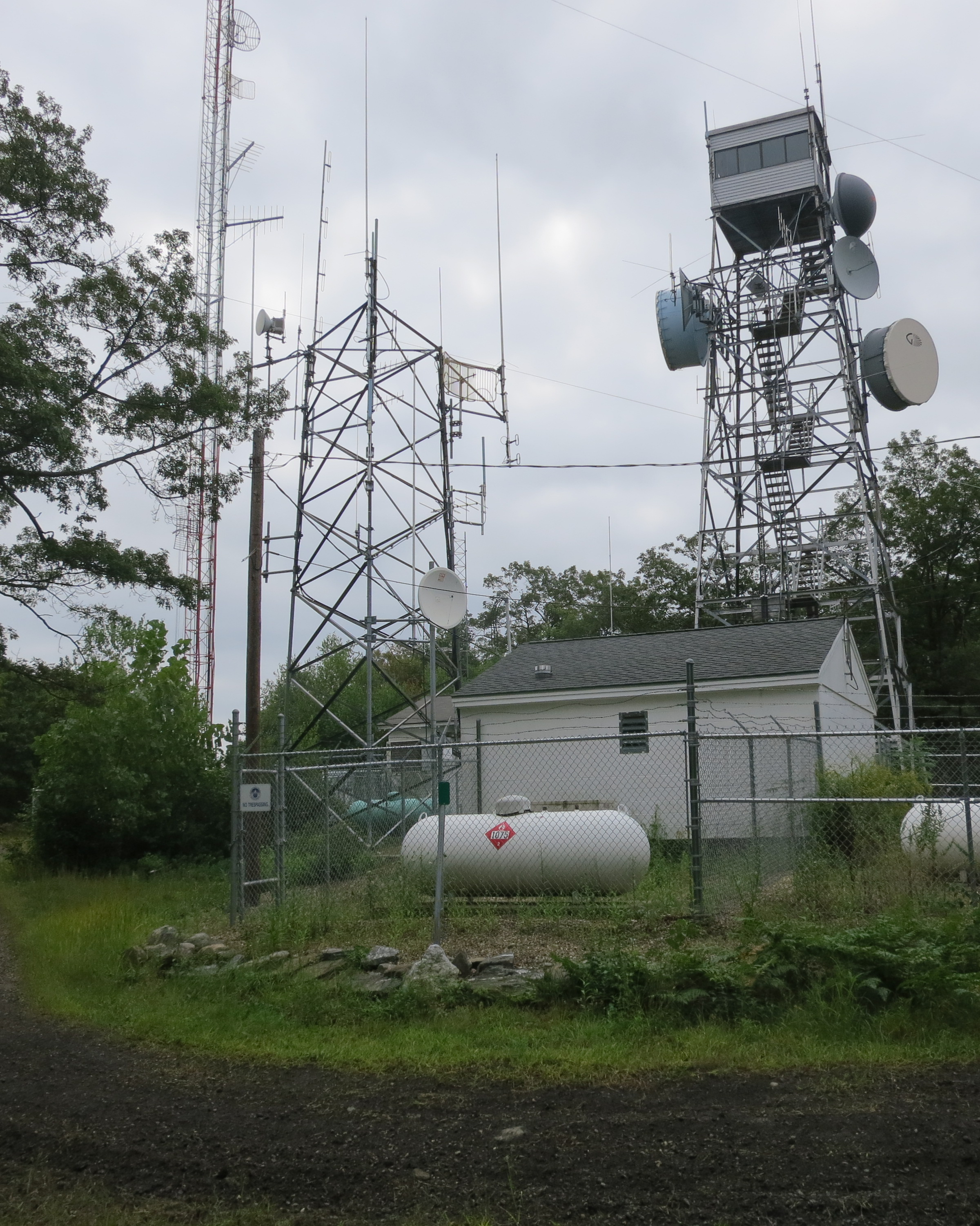 Etecric jagon has repalced this old fire tower